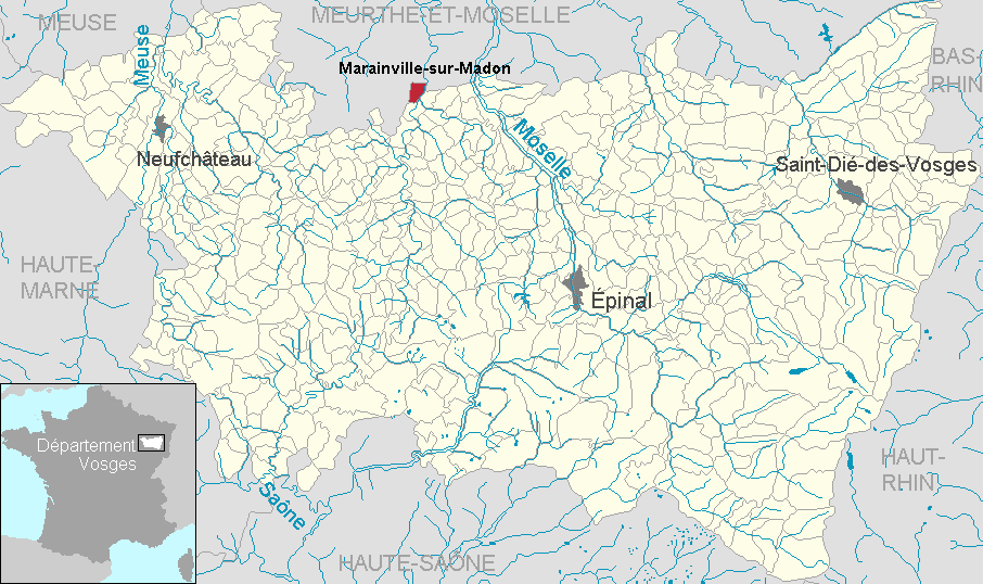 Marainville-sur-Madon in the department of Vosges, Lorraine, France